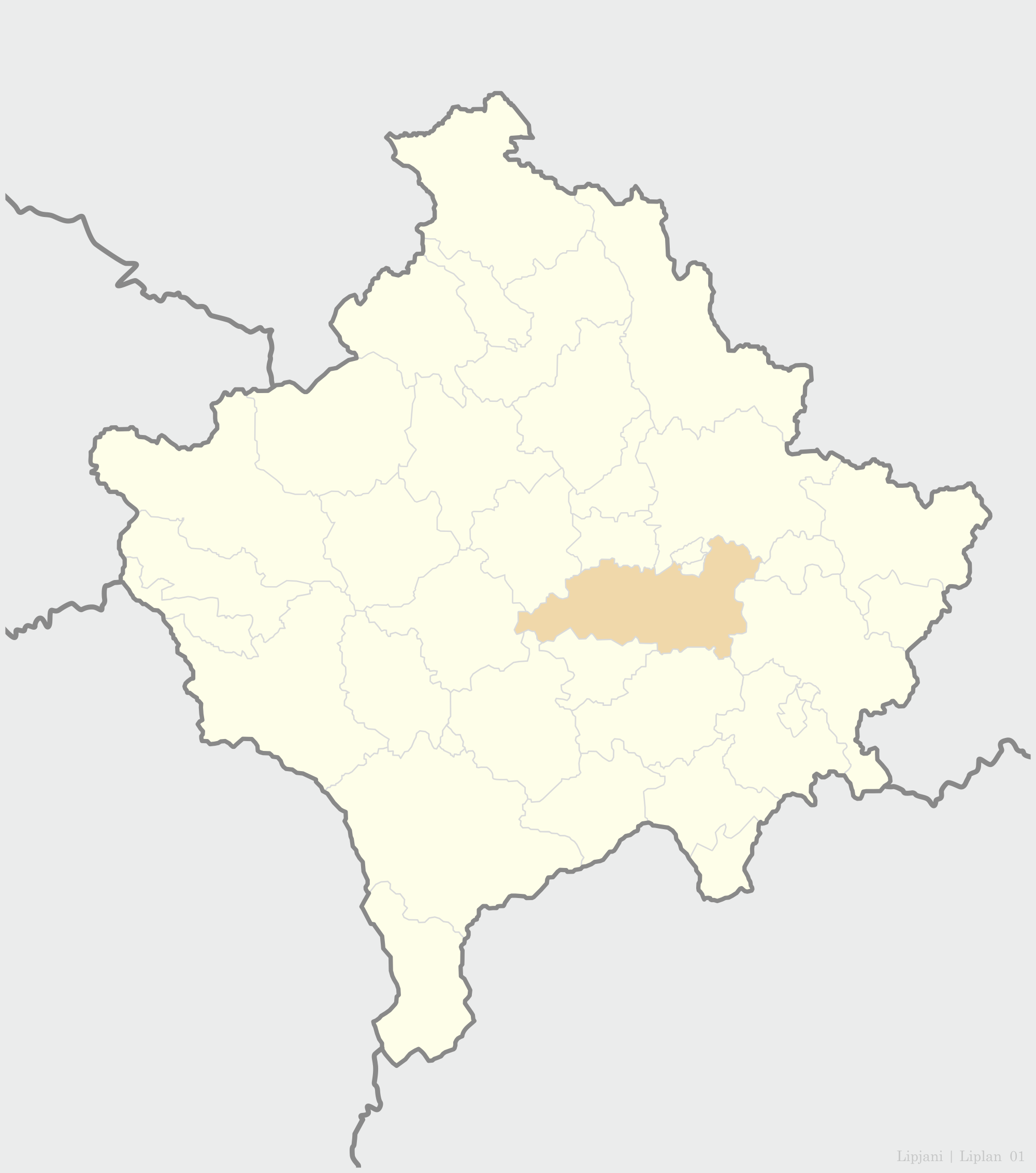 Municipality of Lipljan map